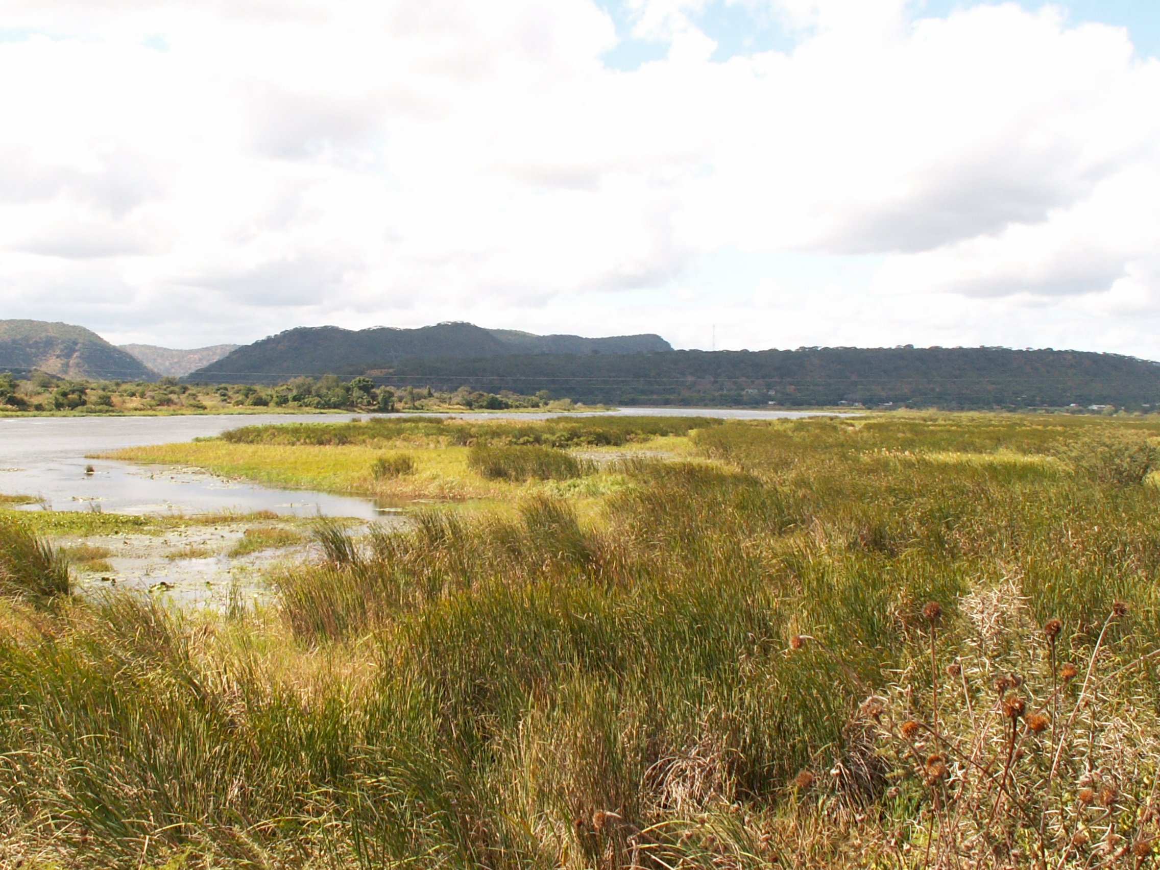 The Kafue River from the South end of Kafue Bridge.